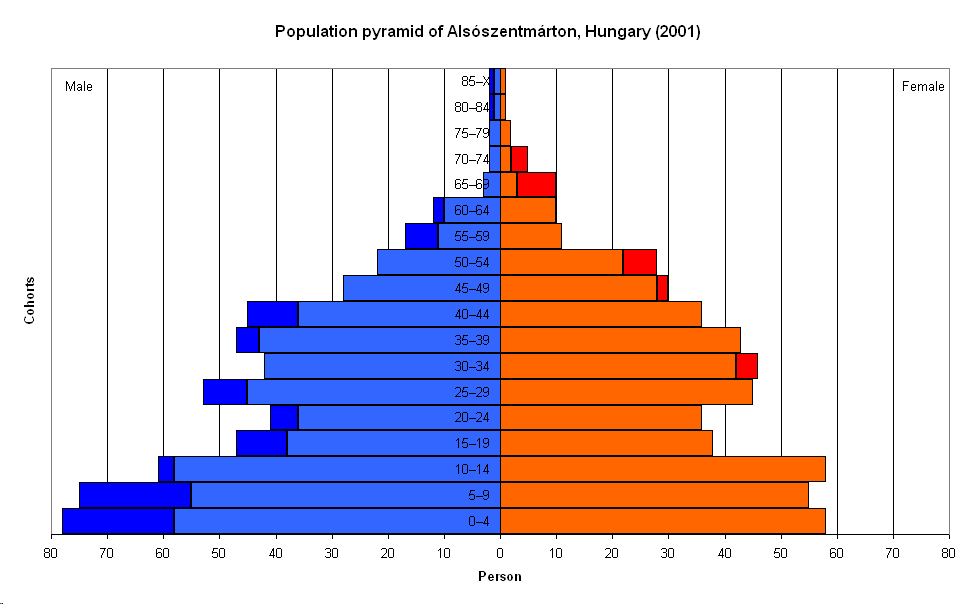 Population pyramid of Alsószentmárton, Hungary (Full Romany/Gipsy-inhabited village)